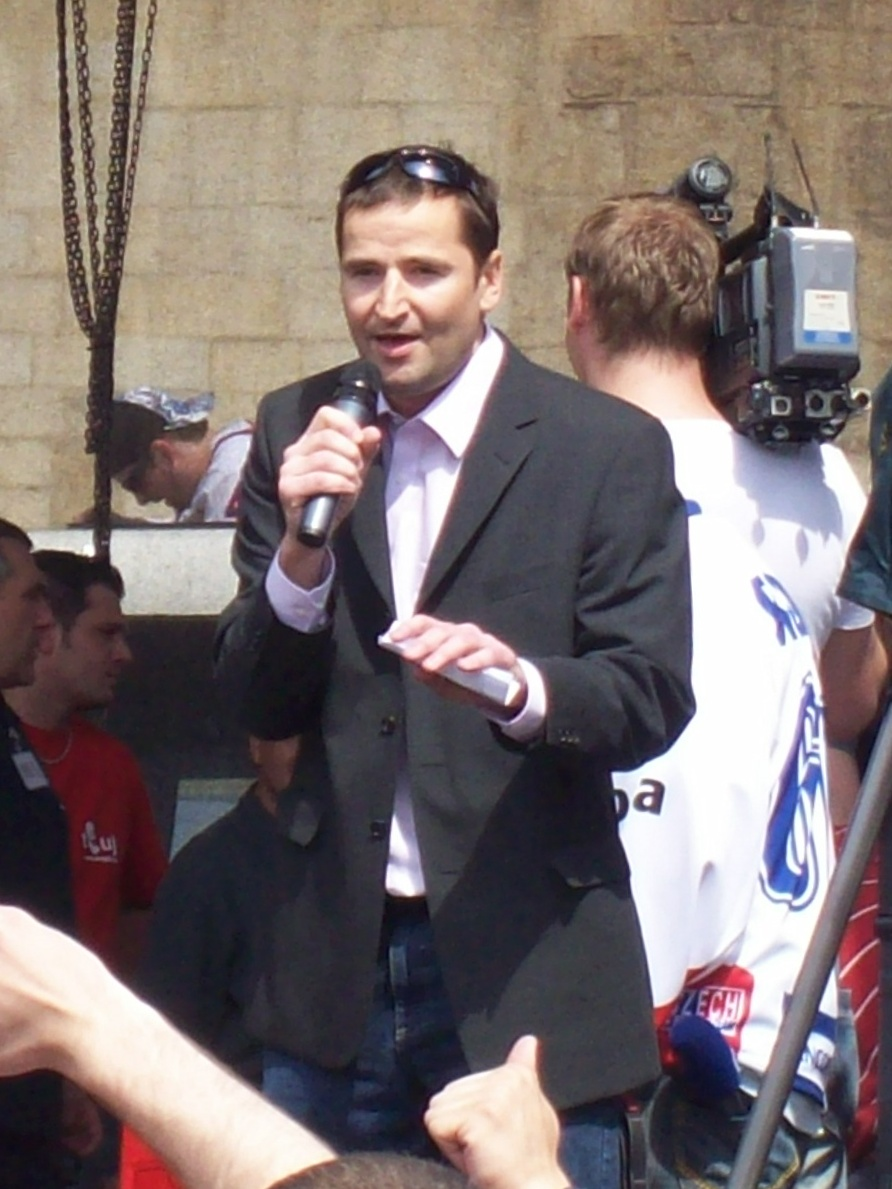 Robert Záruba, Czech TV reporter